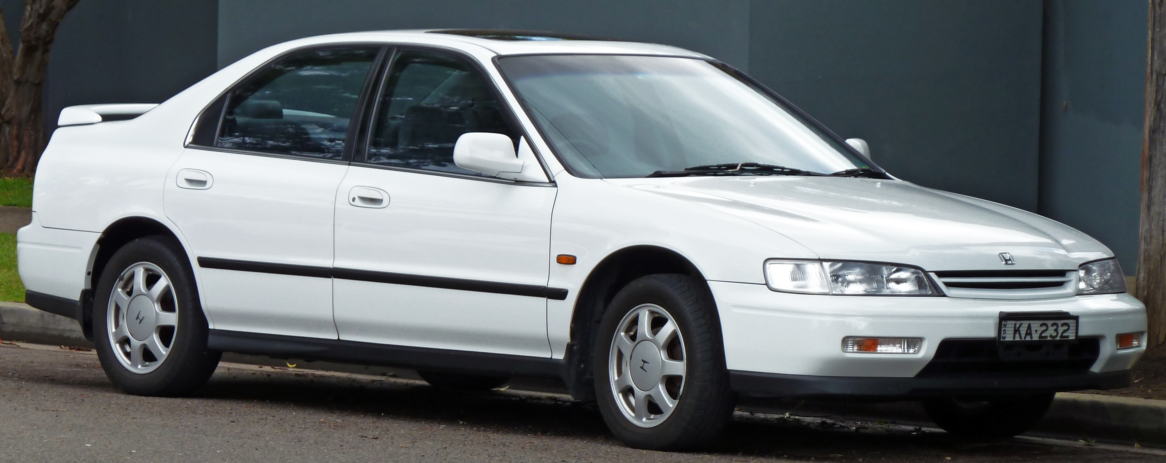 1993–1995 Honda Accord VTi sedan. Photographed in Gymea, New South Wales, Australia.